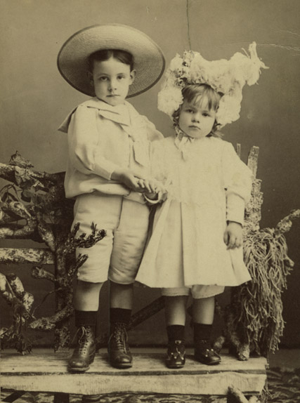 Ricardo Latcham junto con su prima Gilda en 1880.